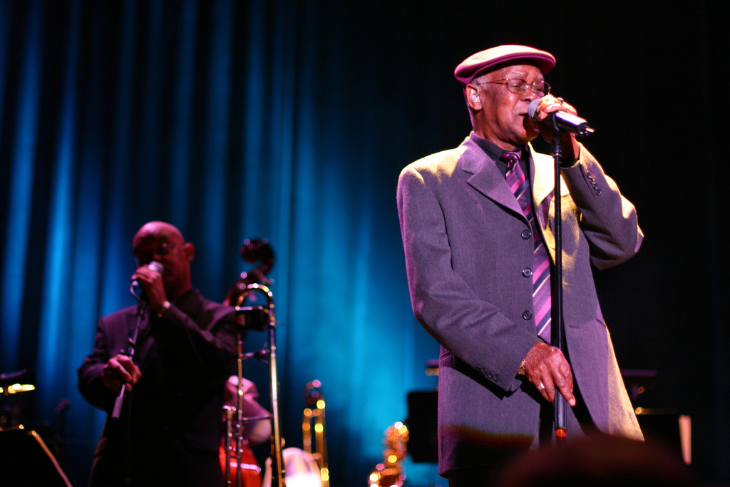 Picture of Ibrahim Ferrer, taken during a concert in the Oosterpoort, Groningen (The Netherlands) at October 20th 2004. Picture by Patrick Sinke.